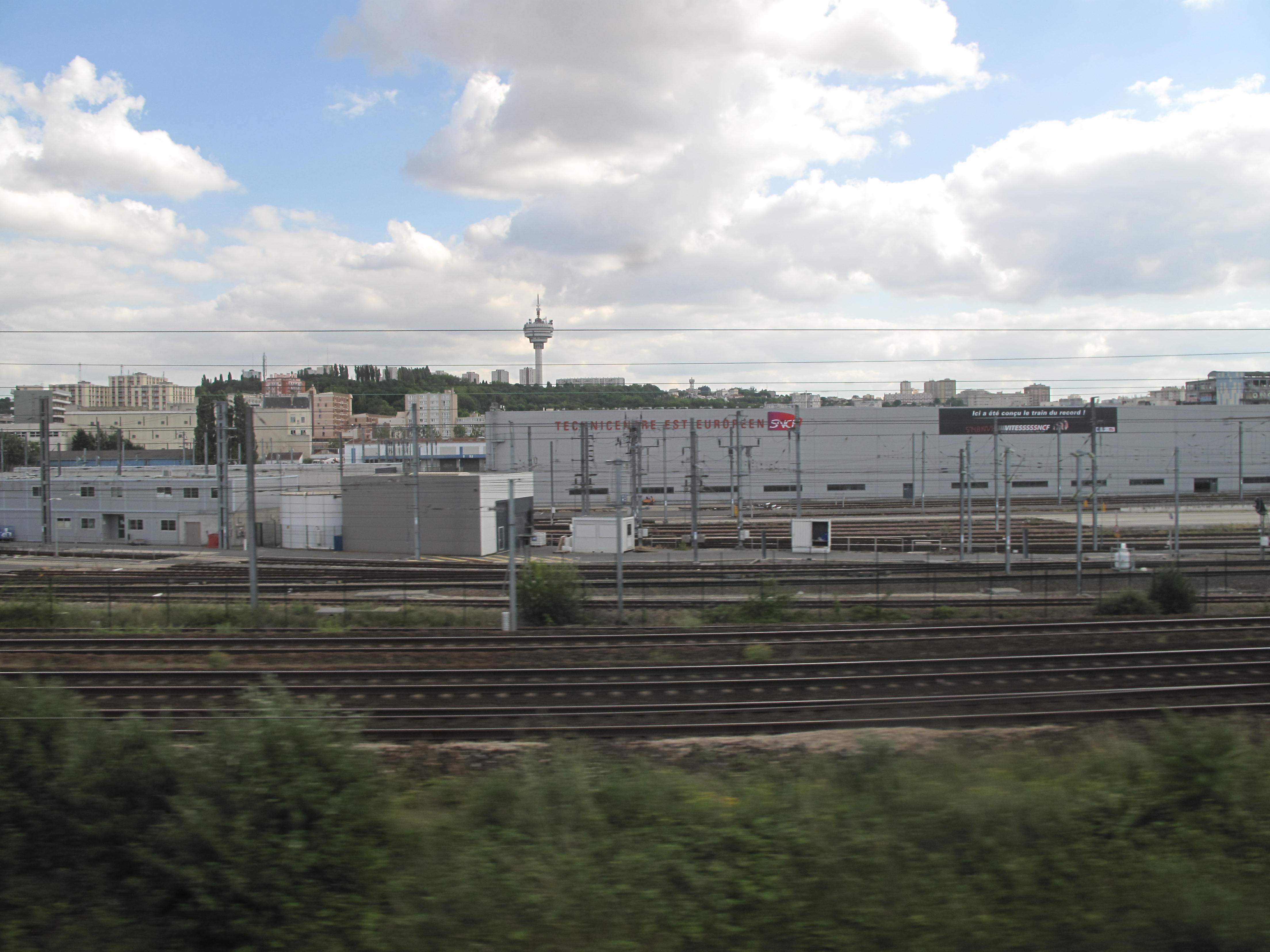 The TEE : Technicentre Est Européen (=East European Technical Center) in Pantin, France